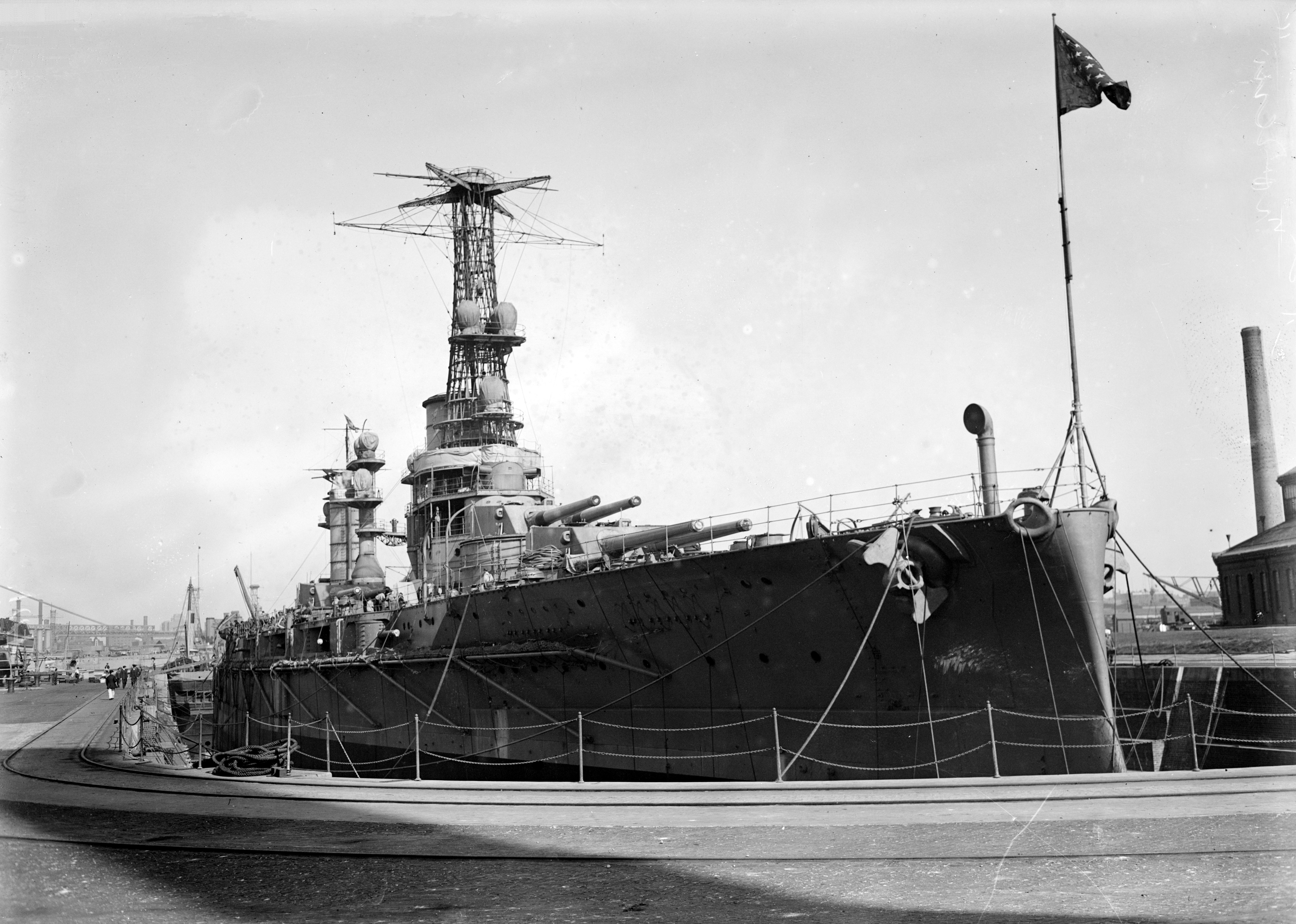 "Photograph shows the Argentine Navy battleship ARA Moreno in Dry Dock no. 4 at the Brooklyn Navy Yard, New York City, where it was being painted, October, 1914." File:Argentine battleship Rivadavia or Moreno in New York drydock.jpg may be an alternative angle.